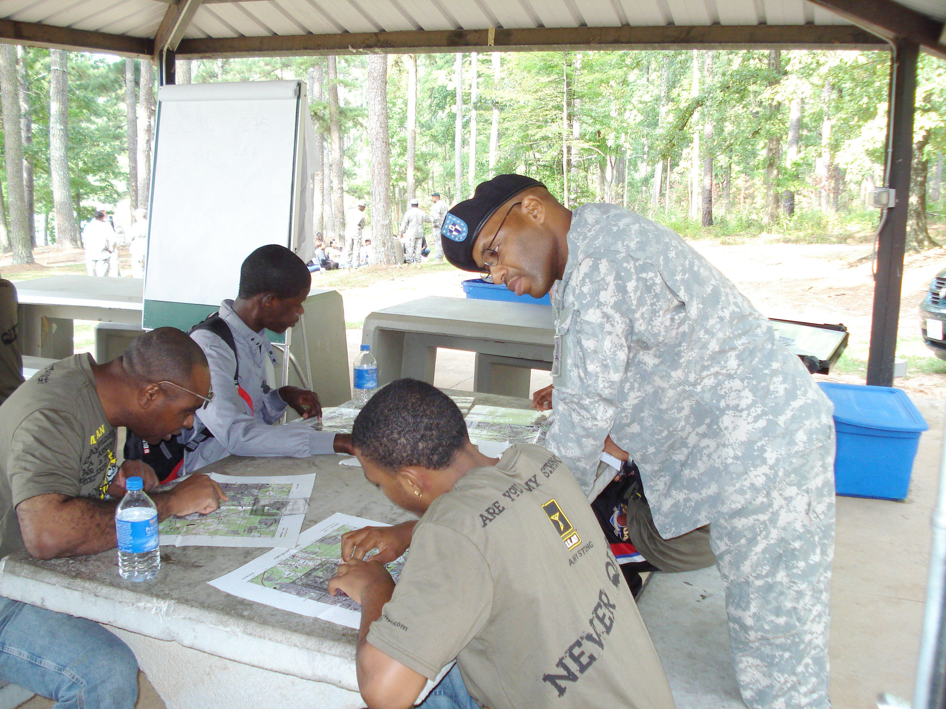 Staff Sgt. Reginald Brooks (right), an observer-controller-trainer with 3rd Battalion, 345th Training Support Combat Service/Combat Service Support (3/345th CSS), teaches terrain recognition to recruits and potential recruits from the Atlanta Army Recruiting Station Sept. 12 at Fort Gillem. Brooks joined fellow Soldiers from 3/345th CSS and the Atlanta Recruiting Station to instruct and mentor more than 60 recruits on basic Army warrior tasks.